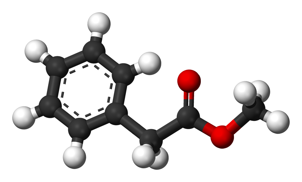 Ball-and-stick model of the methyl phenylacetate molecule, an ester formed from methanol and phenylacetic acid.